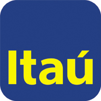 Logo of Banco Itaú